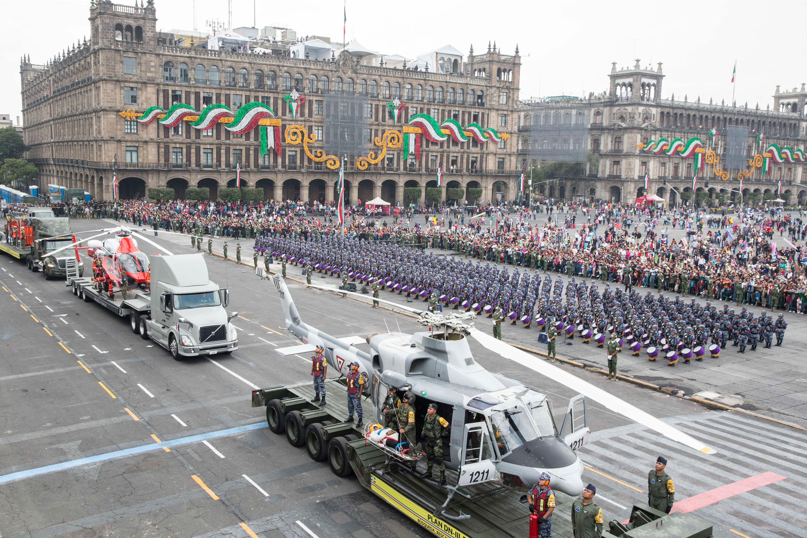 Desfile Militar Conmemorativo del CCV Aniversario del Inicio de la Independencia de México. Ciudad de México. 16 de septiembre de 2015.